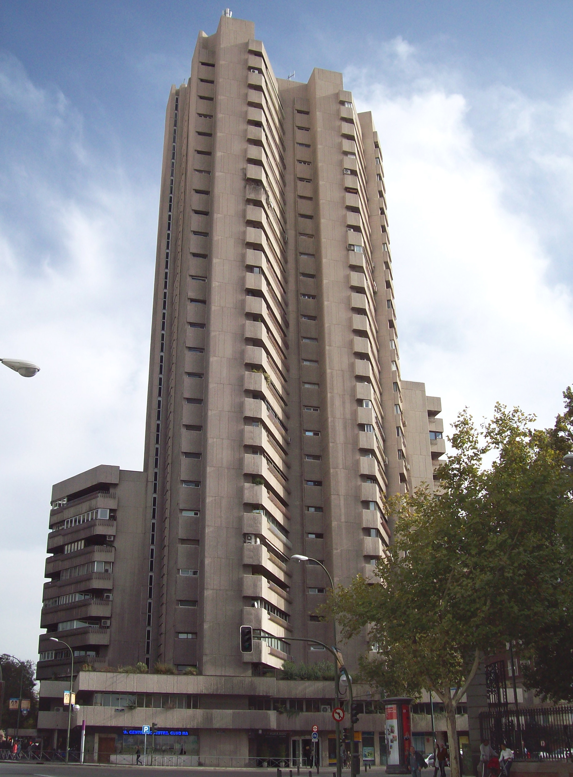 View, from the north-west angle, of Torre de Valencia, at 9 Avenida de Menéndez Pelayo (avenue) in Retiro district in Madrid (Spain). It was projected in 1968 by architect Javier Carvajal Ferrer, and built between 1970 and 1973.